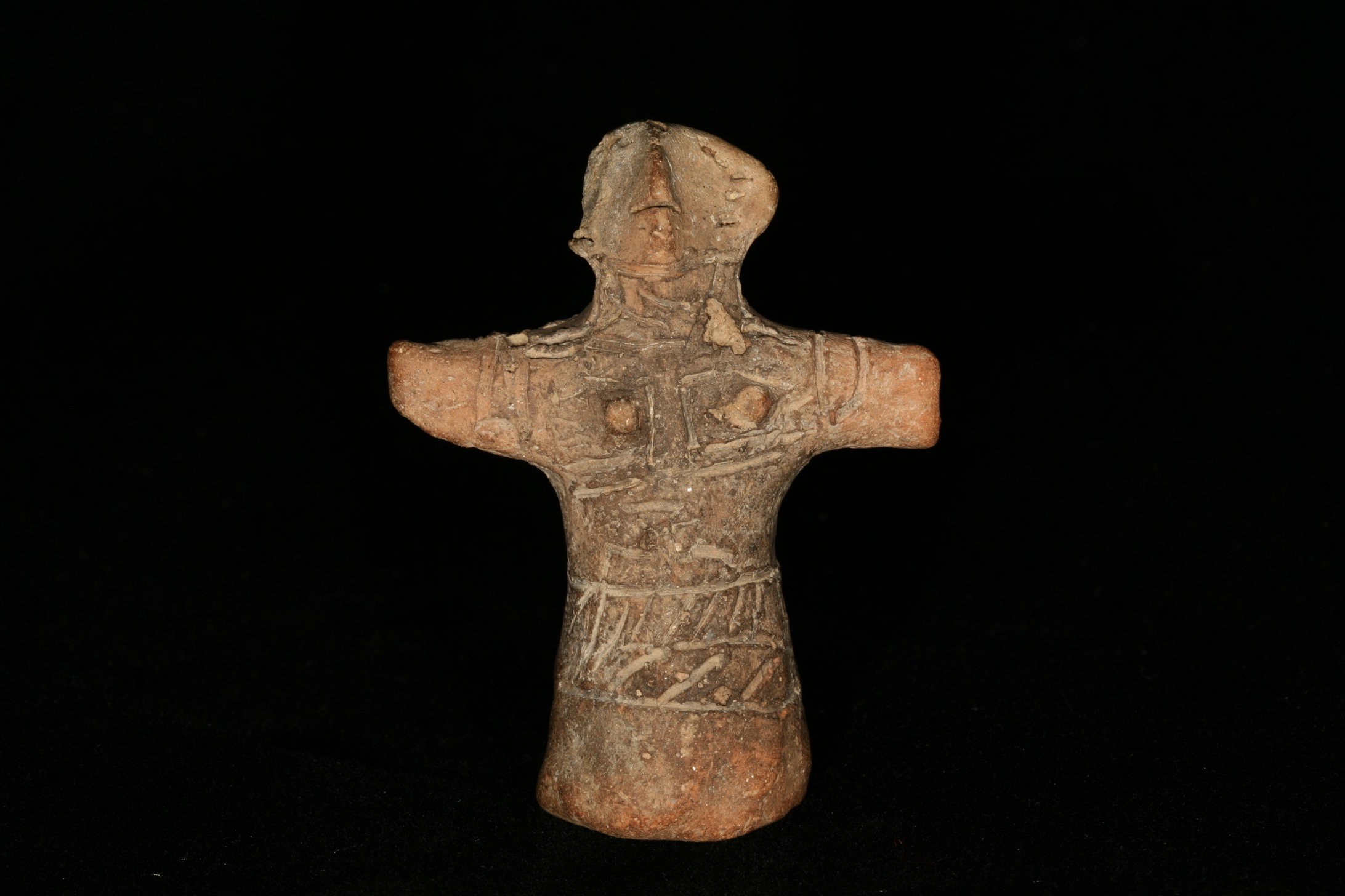 Artifact found in present-day Romania from the Neolithic period of 5500 BCE. Likely a Cucuteni–Trypillia or a Vinča culture artifact.